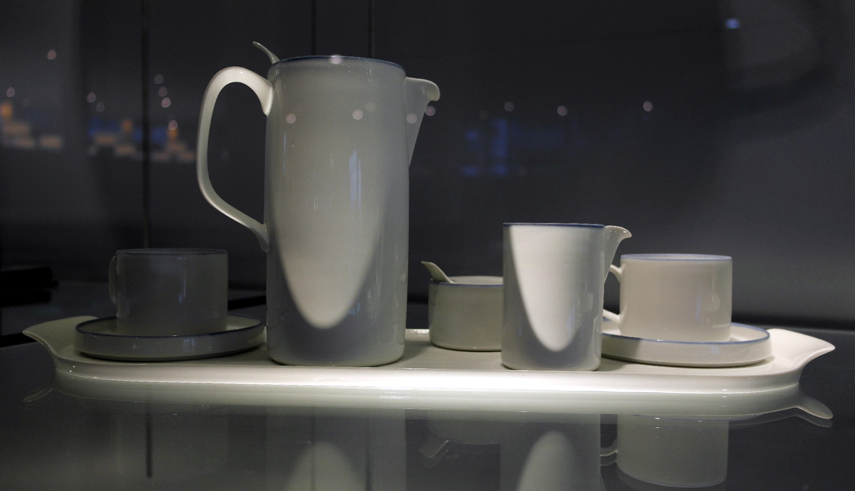 Tableware "Tête-à-tête" designed by Pieter Stockmans, produced by Mosa potteries in Maastricht around 1983, Collection Henk van Buren, now in Centre Ceramique, Maastricht, the Netherlands.